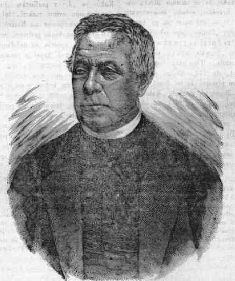 Matija Majar, also spelled Majer (7 February 1809 - 31 July 1892) was a Carinthian Slovene Roman Catholic priest and political activist, most famous as the author of the idea of a United Slovenia. He was also known under the pseudonym Ziljski.